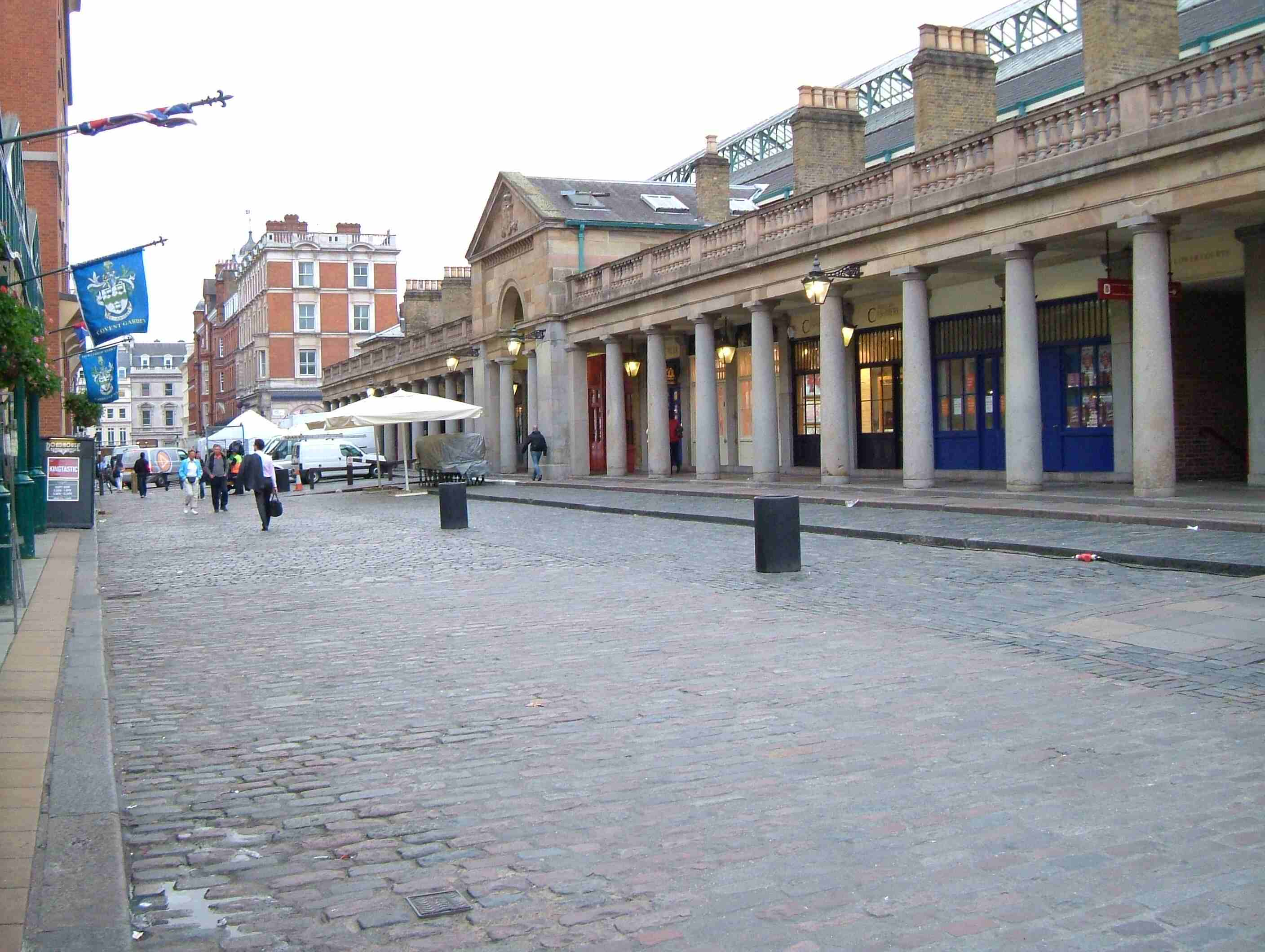 Covent garden market, London, United Kingdom, Southern facade